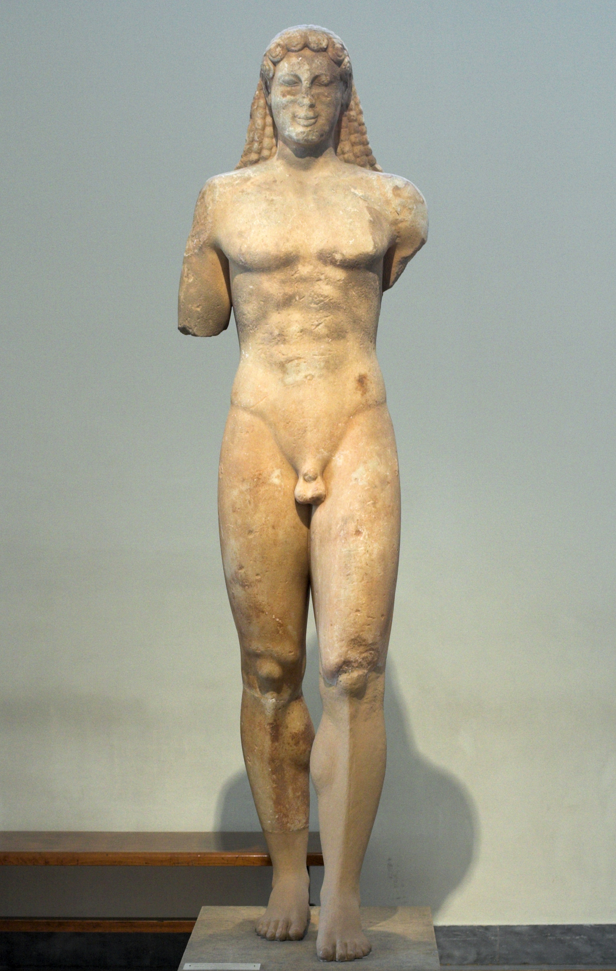 Sepulchral Kouros 173 cm tall, islandic marble, 530-520 BC. Finding: Korrhesia on the island of Kea (Keos), Cycladic work (Parian?). National Archaeological Museum of Athens N 3686.